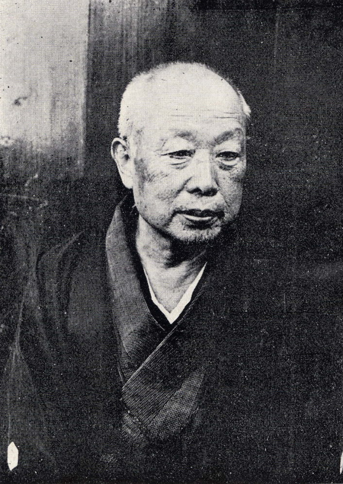 Aeba Koson (饗庭篁村) was a Japanese author.